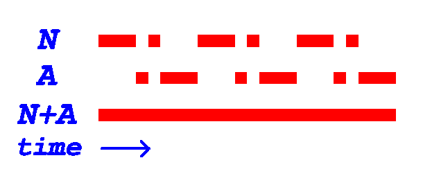 Low frequency radio range signal diagram